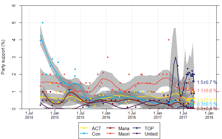 Graph showing support for political parties in New Zealand since the 2014 election, according to various political polls. Data is obtained from the Wikipedia page, Opinion polling for the Next New Zealand general election